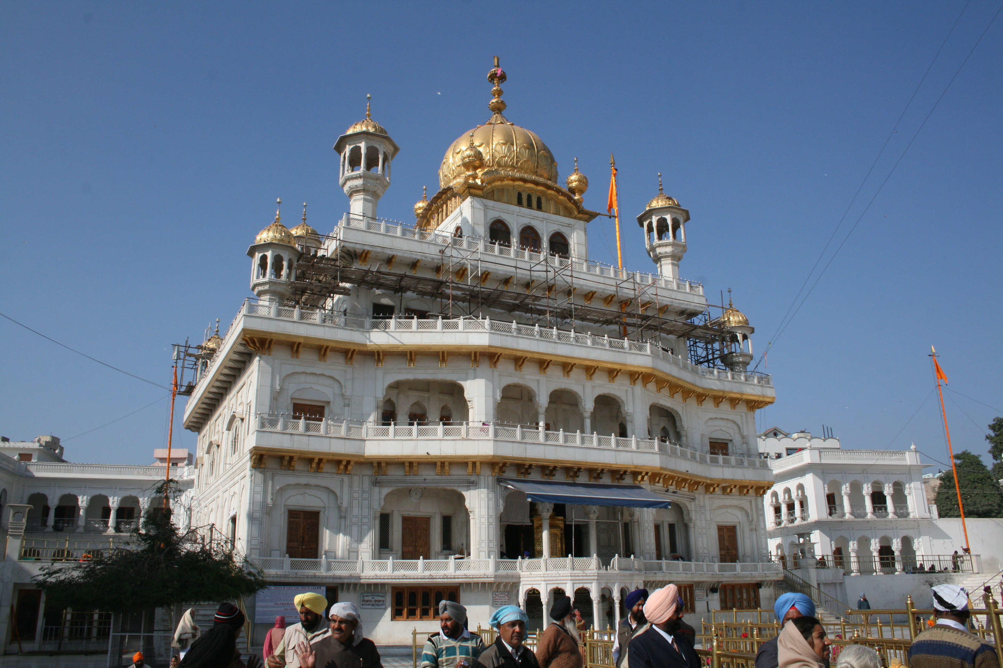 Harmandir Sahib or the Golden Temple, Amritsar, India